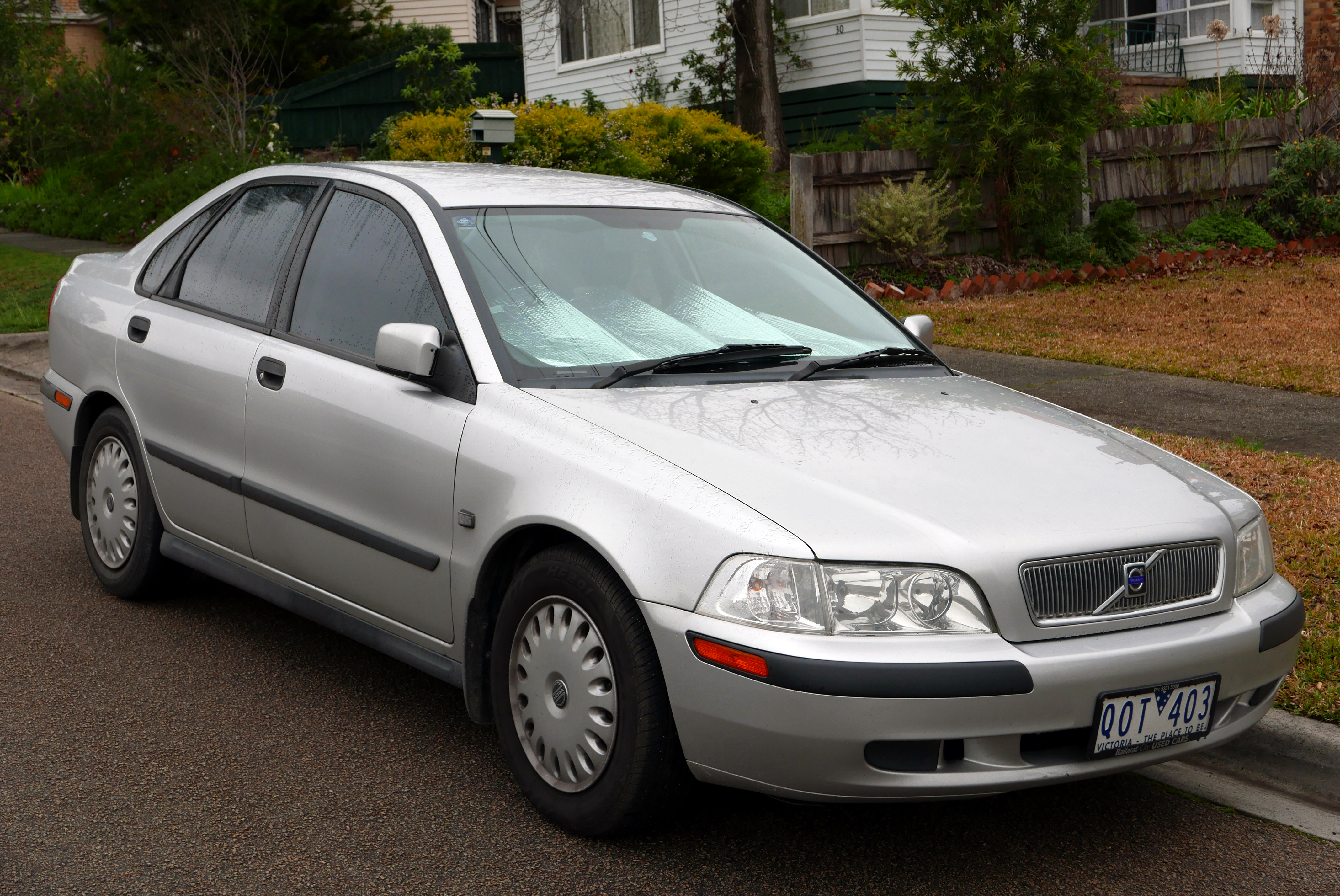 2000 Volvo S40 (MY01) 1.8 sedan. Photographed in Doncaster East, Victoria, Australia. Vehicle registration enquiry results Jurisdiction Victoria Registration QOT403 Chassis code YV1VS14K91F644840 Engine code B4182220944 Compliance date 2000-11 Year of manufacture 2000